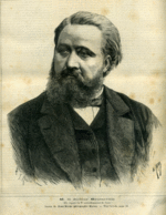 A portrait of Dissociative identity disorder patient Louis Vivet.